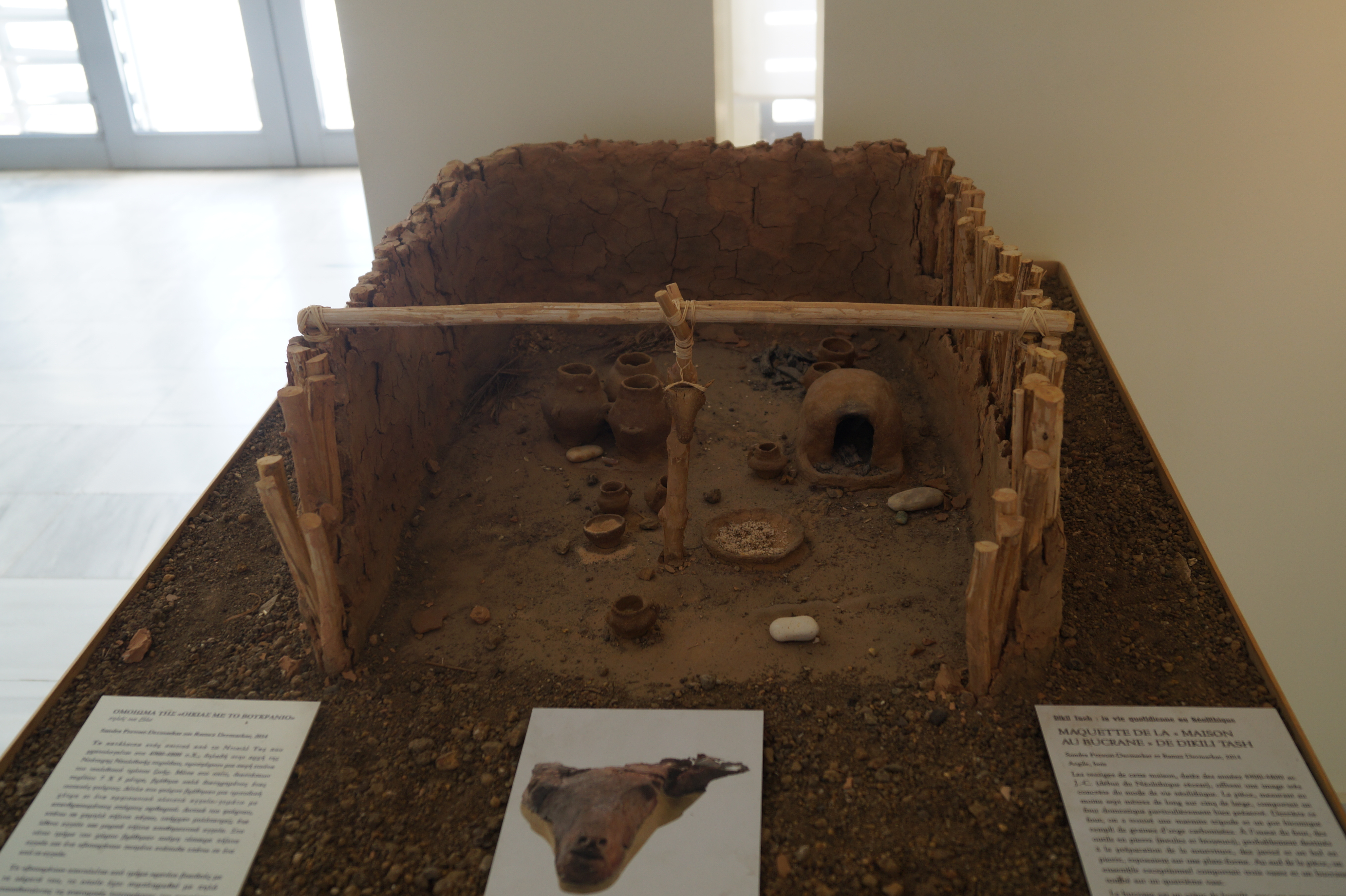 Krinides, Makedonia, Greece: Archaeological Museum of Philippi: Model of the house of the Bucranium. (4900–4800 BC)